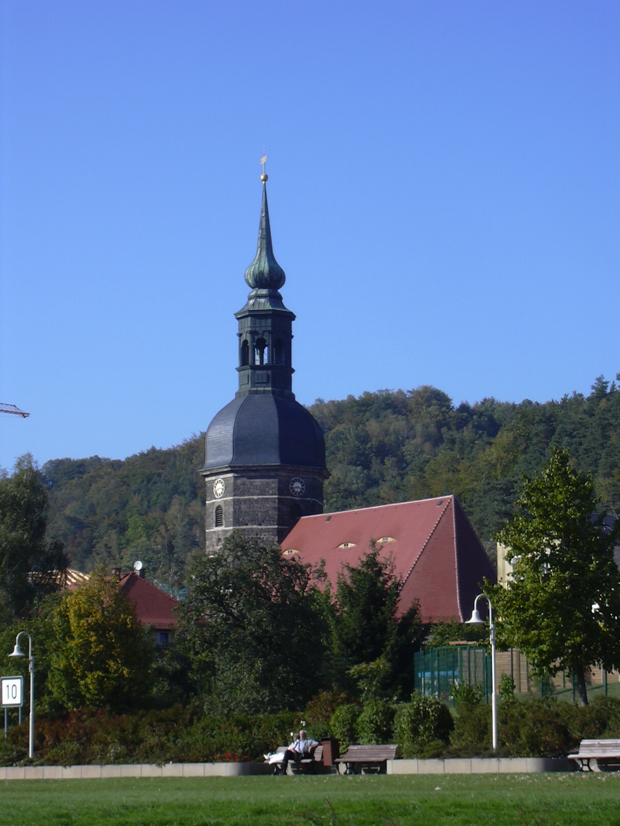 Bad Schandau, St. Johannis, Protestant Church (Saxony/Germany)